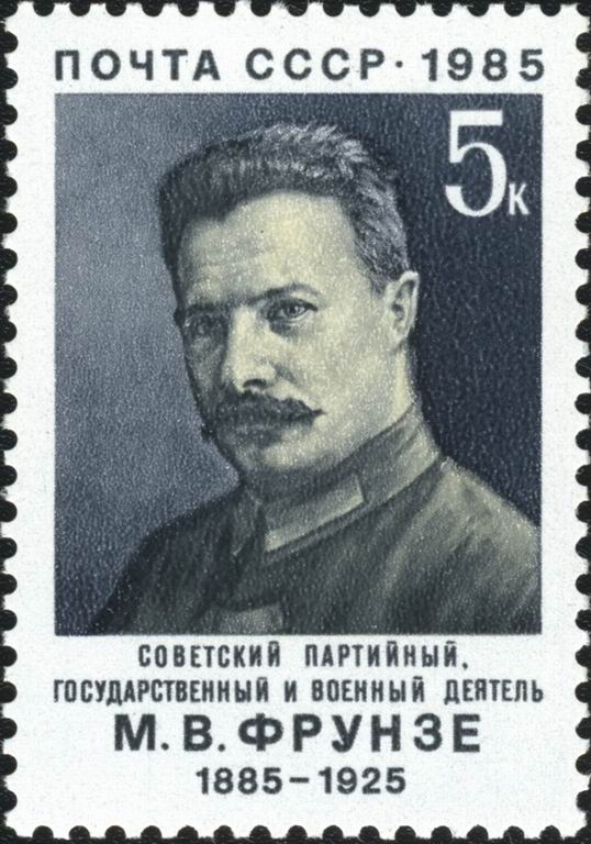 А Soviet Union stamp, Military persons of the USSR. Birth Centenary of M.V.Frunze. Date of issue: 2nd February 1985. Designer: N. Mishurov. Michel catalogue number: 5470. 5 K. stone, black and indigo. Portrait of military strategist Mikhail Vasilyevich Frunze (1885-1925).